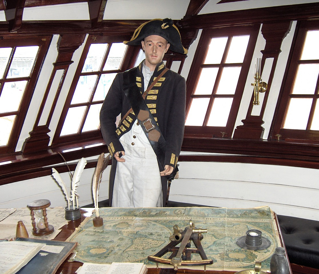 Grand Turk, a replica of a three-masted 6th rate frigate from Nelson's days - captain's cabin